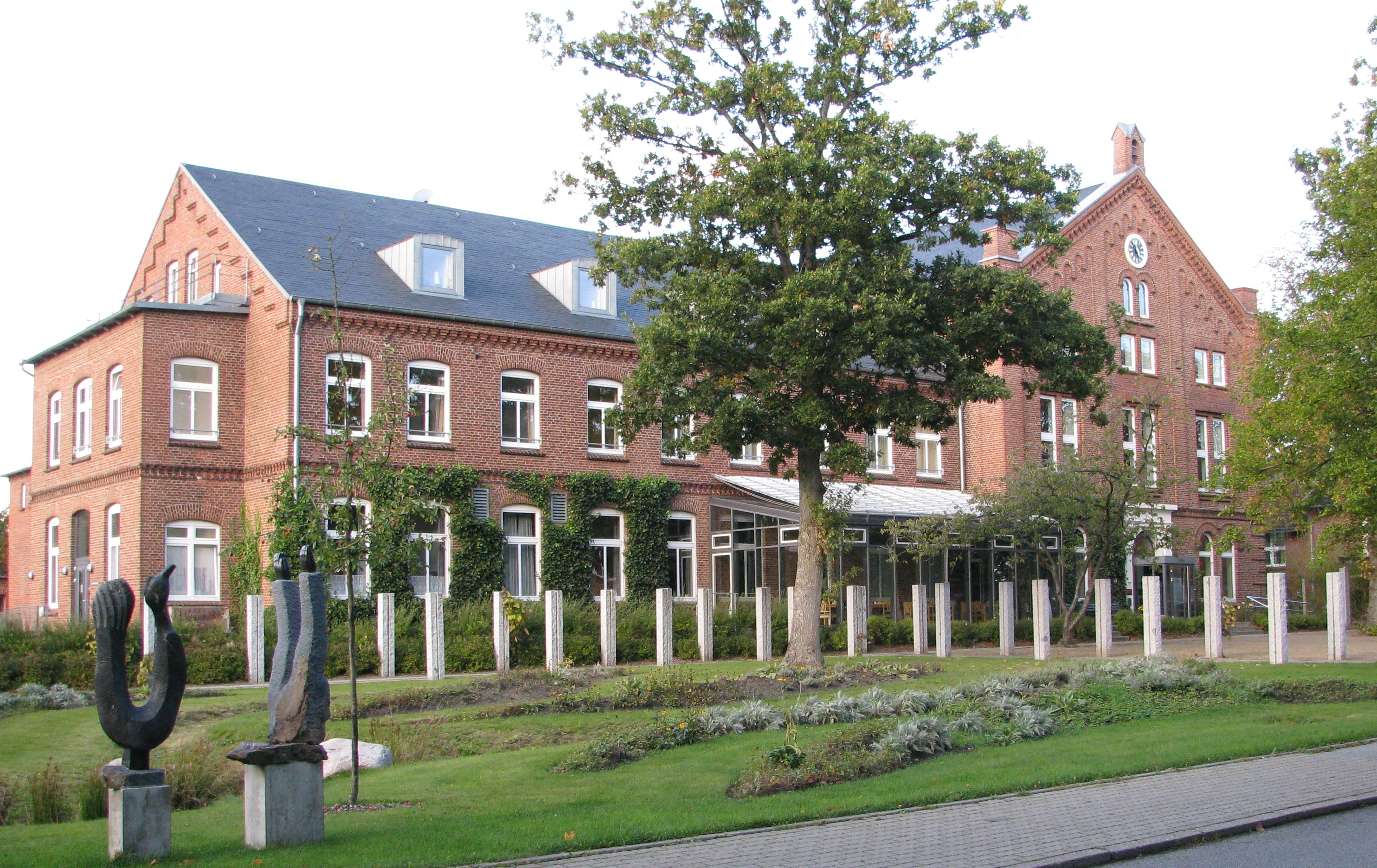 Martineum Building of ecomenical community center Christian Jensen Kolleg in Breklum, Germany